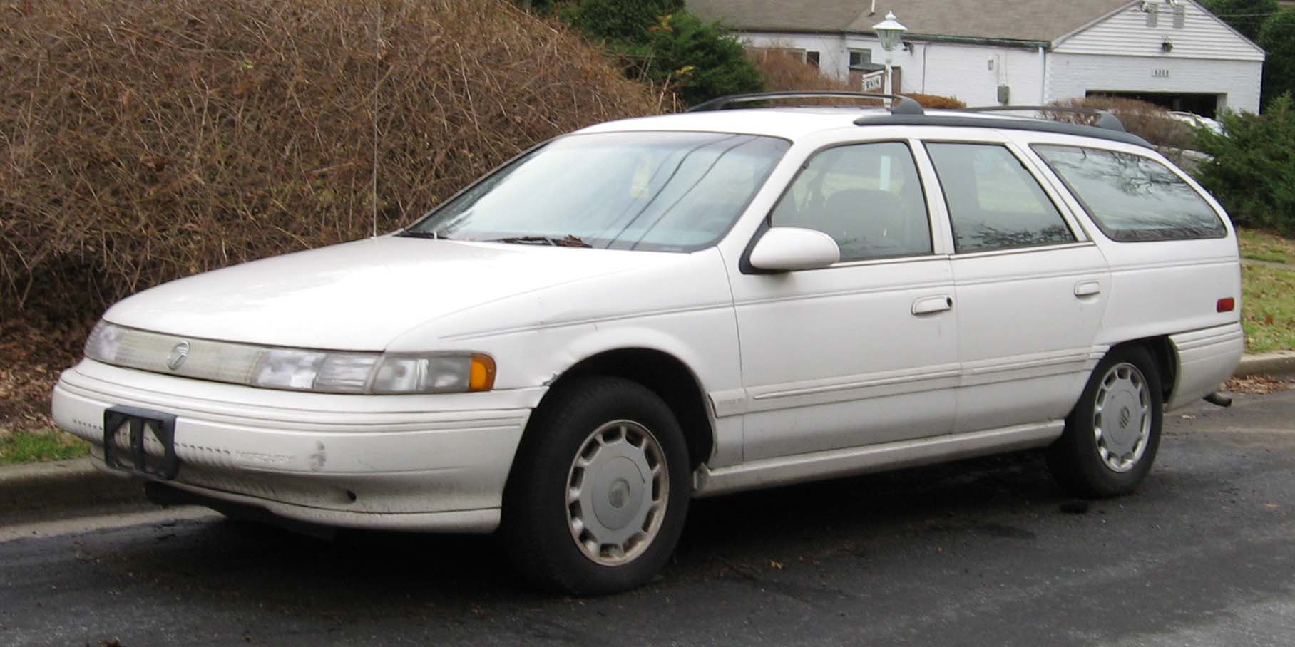 1994-1995 Mercury Sable wagon photographed in USA.